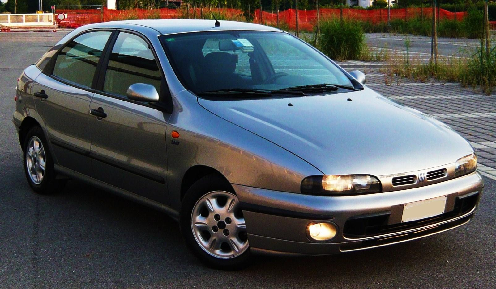 1997 Fiat Brava 1.6 16v ELX, body color "Grigio Graphite" code 628/A